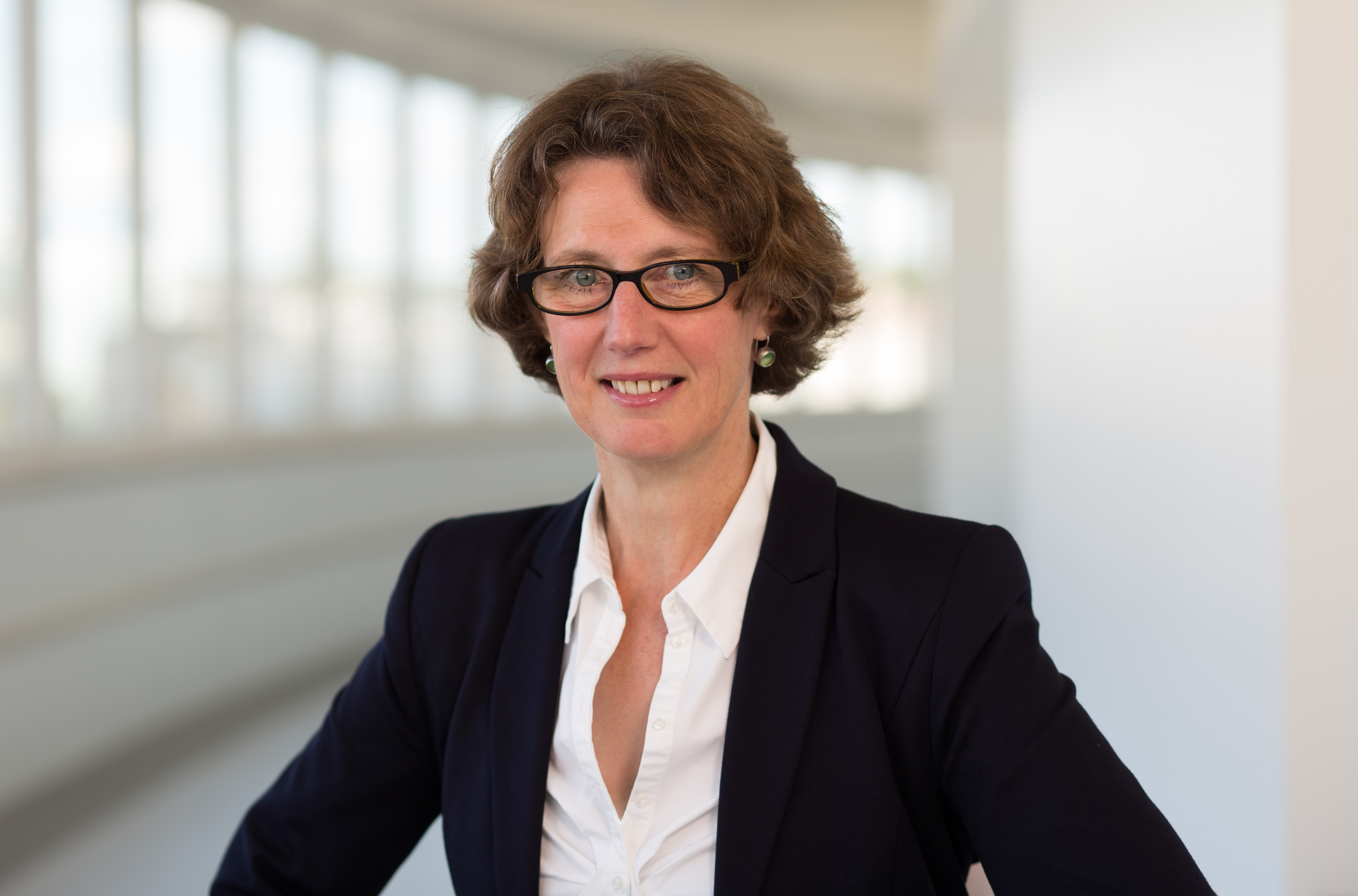 German archaeologist Sabine Wolfram. Director (since 2012) of the State Museum of Archeology in Chemnitz, Germany